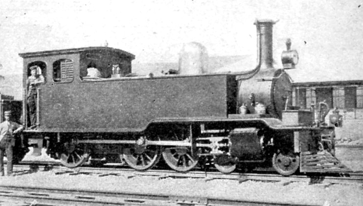 Pretoria-Pietersburg Railway 35 Tonner 4-6-0T “Portuguese”